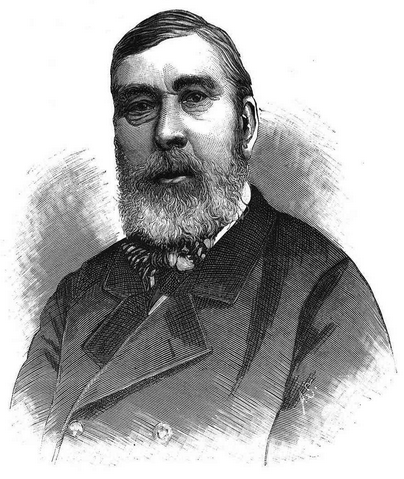 Portrait of photographer Jean Laurent (1816-1886). Engraving published in Spanish magazine La Ilustracion Nacional in 1887.